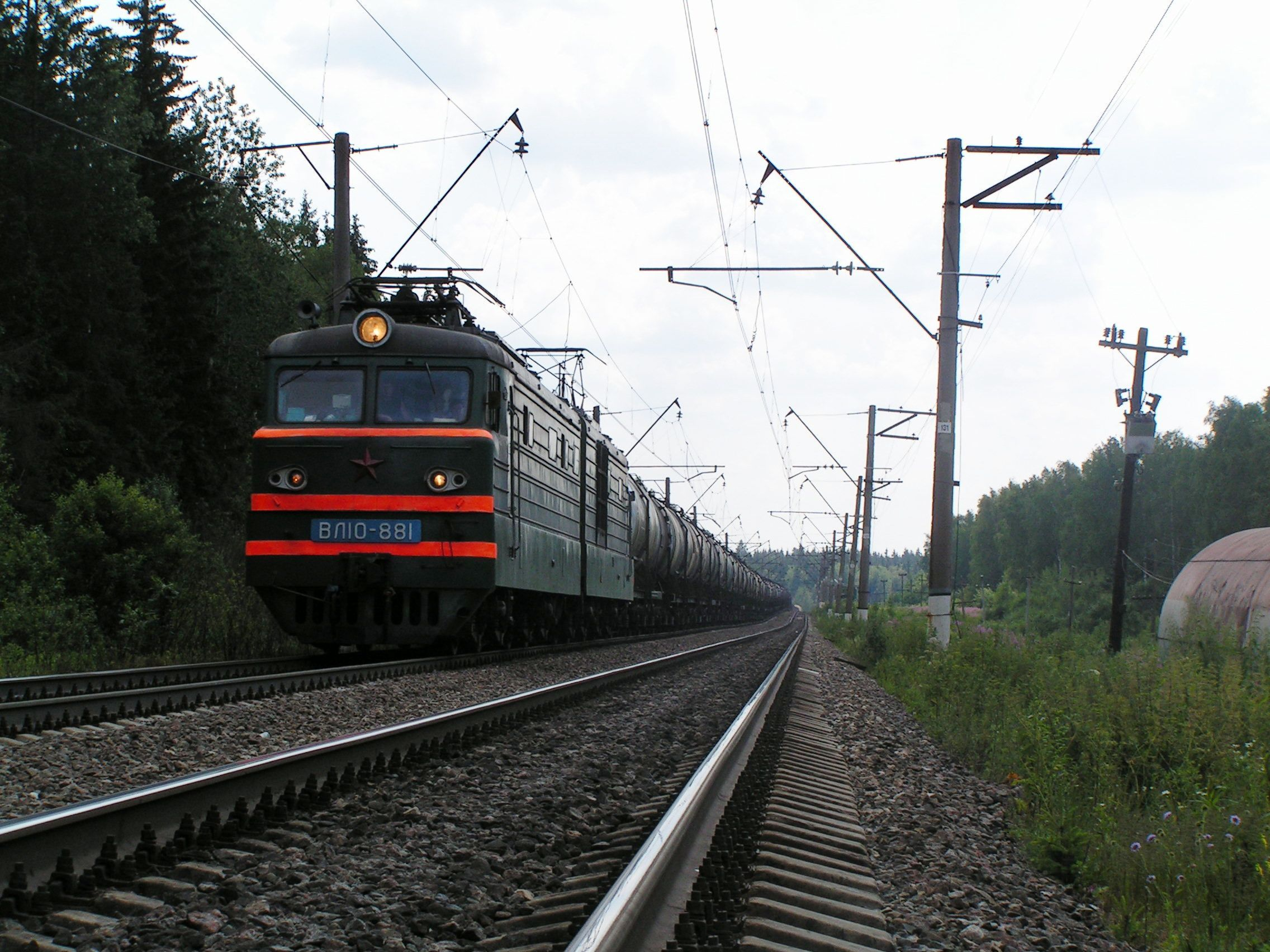 Train with the oil, conducted by an electric locomotive VL10-881 on 176 km БМО. Moscow Region